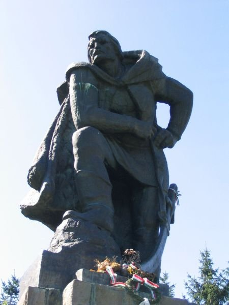 The statue of György Dózsa, in his native village, Dalnic